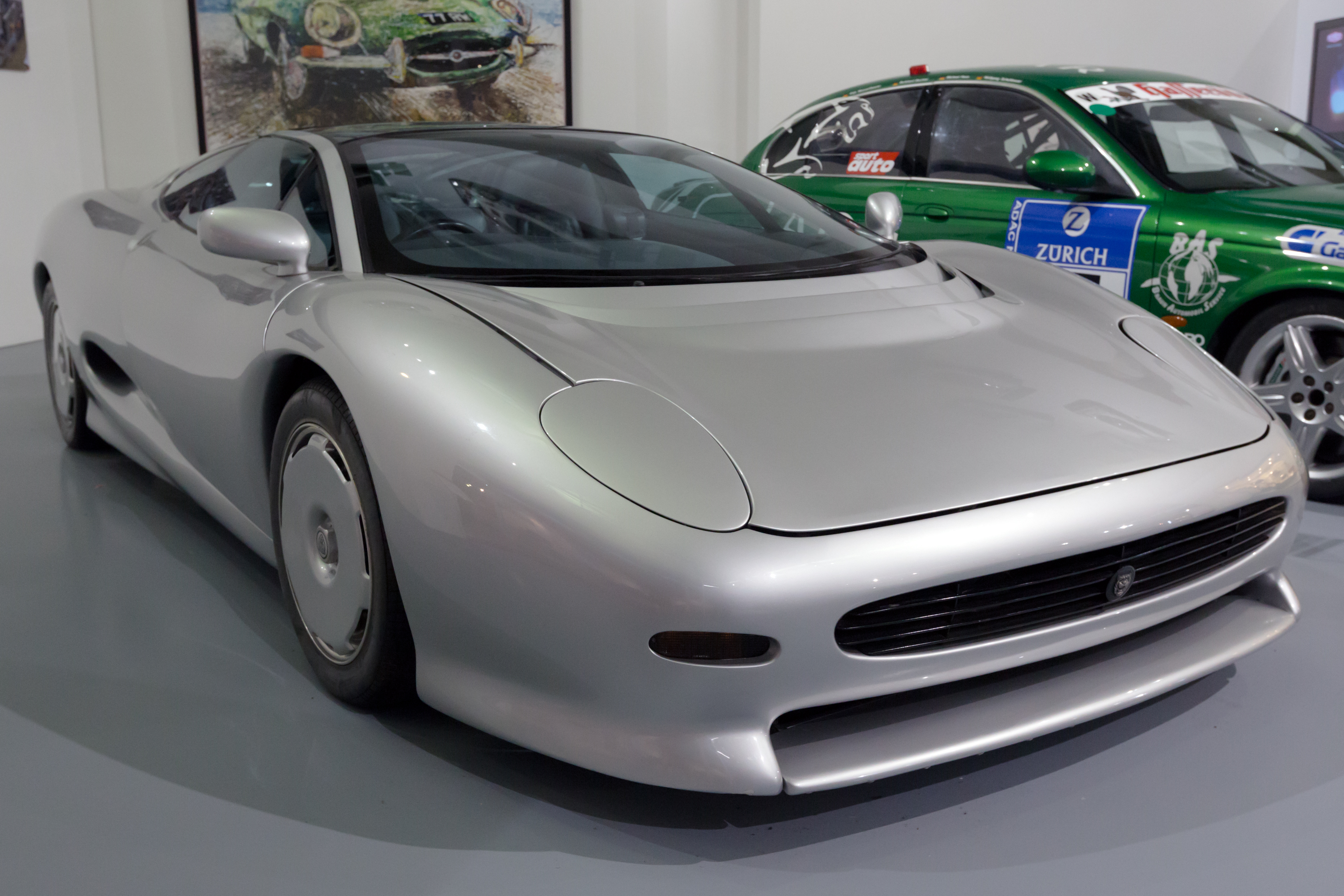 1988 Jaguar XJ220 Concept